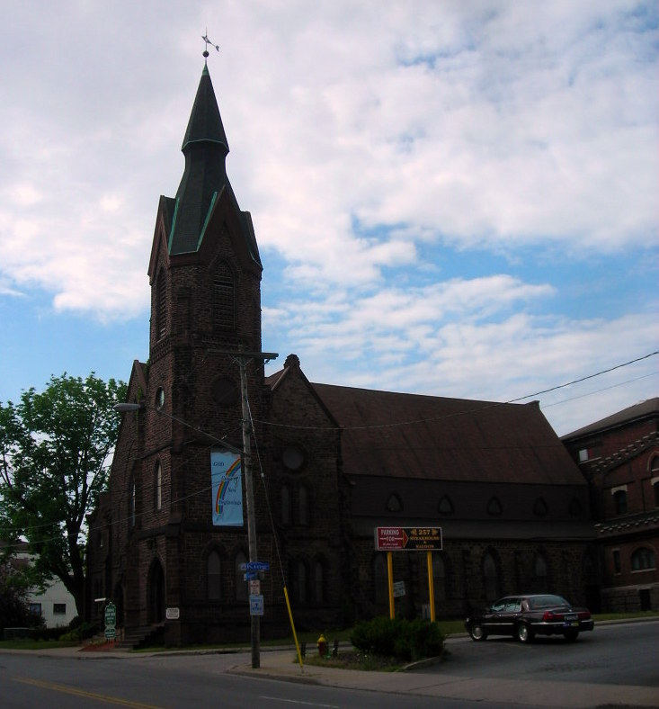 Tabernacle Baptist Church, Utica, New York, June 2007